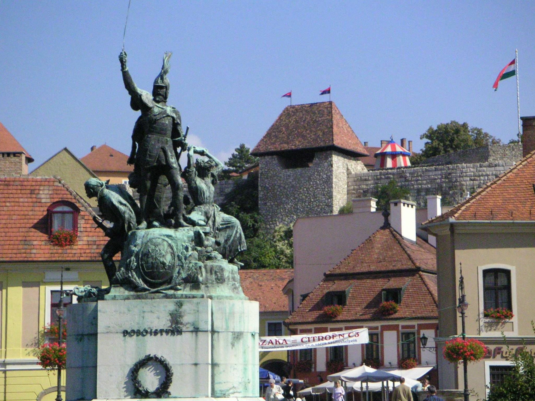 Dobo ter and Eger castle, Eger, Hungary.